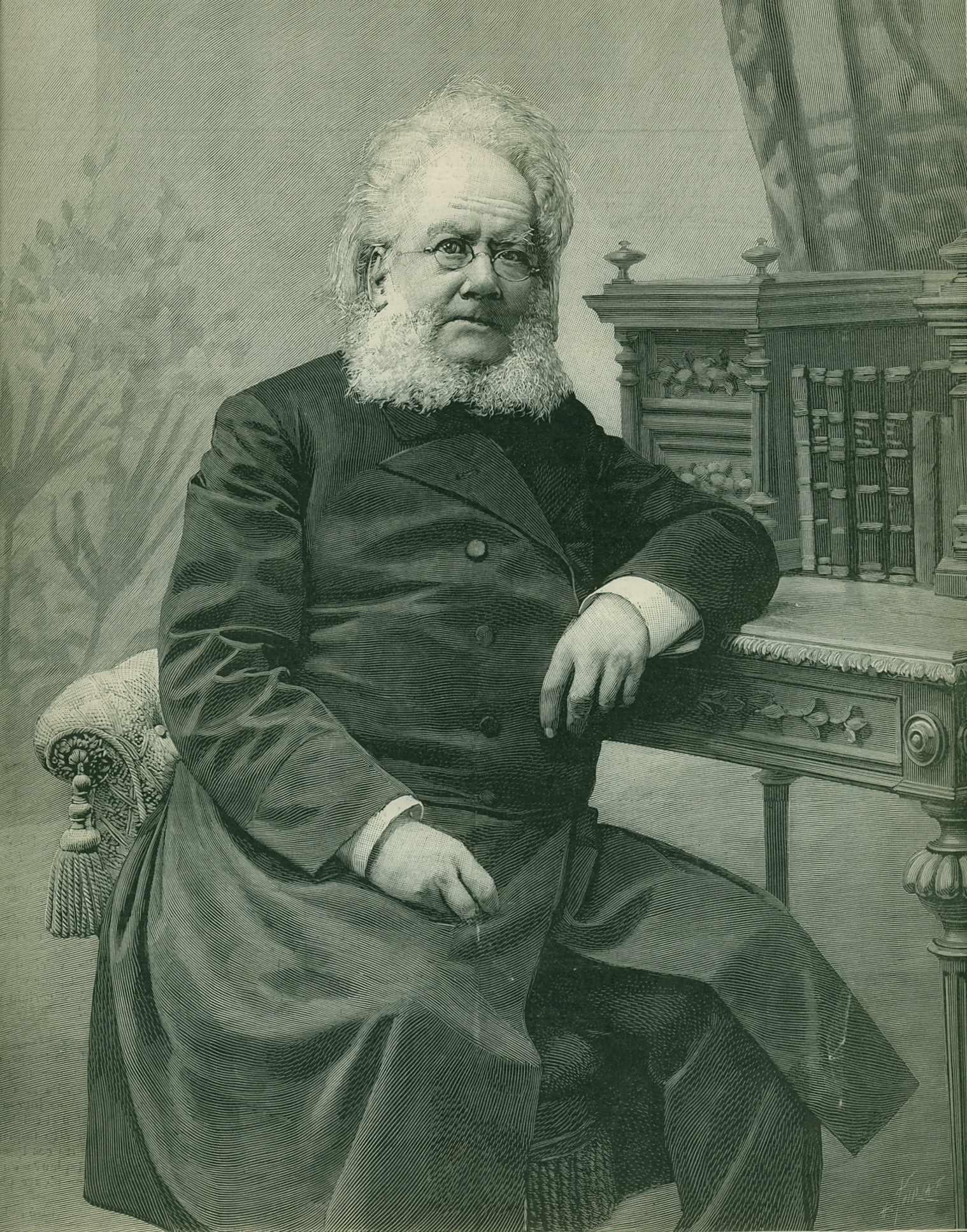 a press engraving of the famous norwegian author Henrik IBSEN, published in L'ILLUSTRATION, a french magazine, in 1898